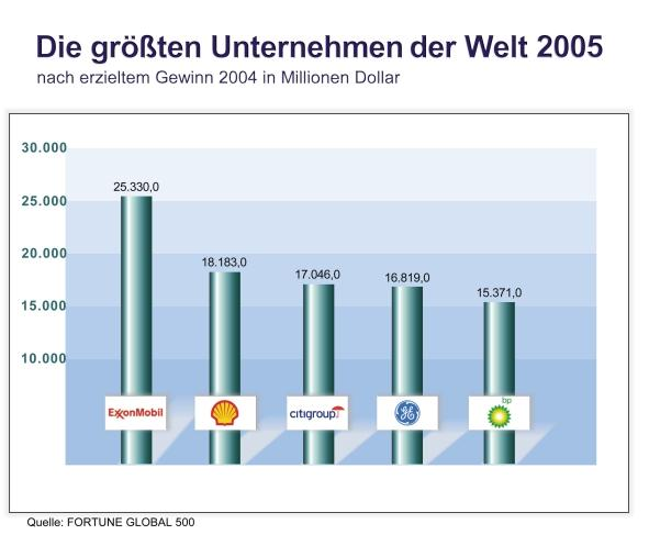 The five largest businesses of the world in 2005 according to their previous year profits